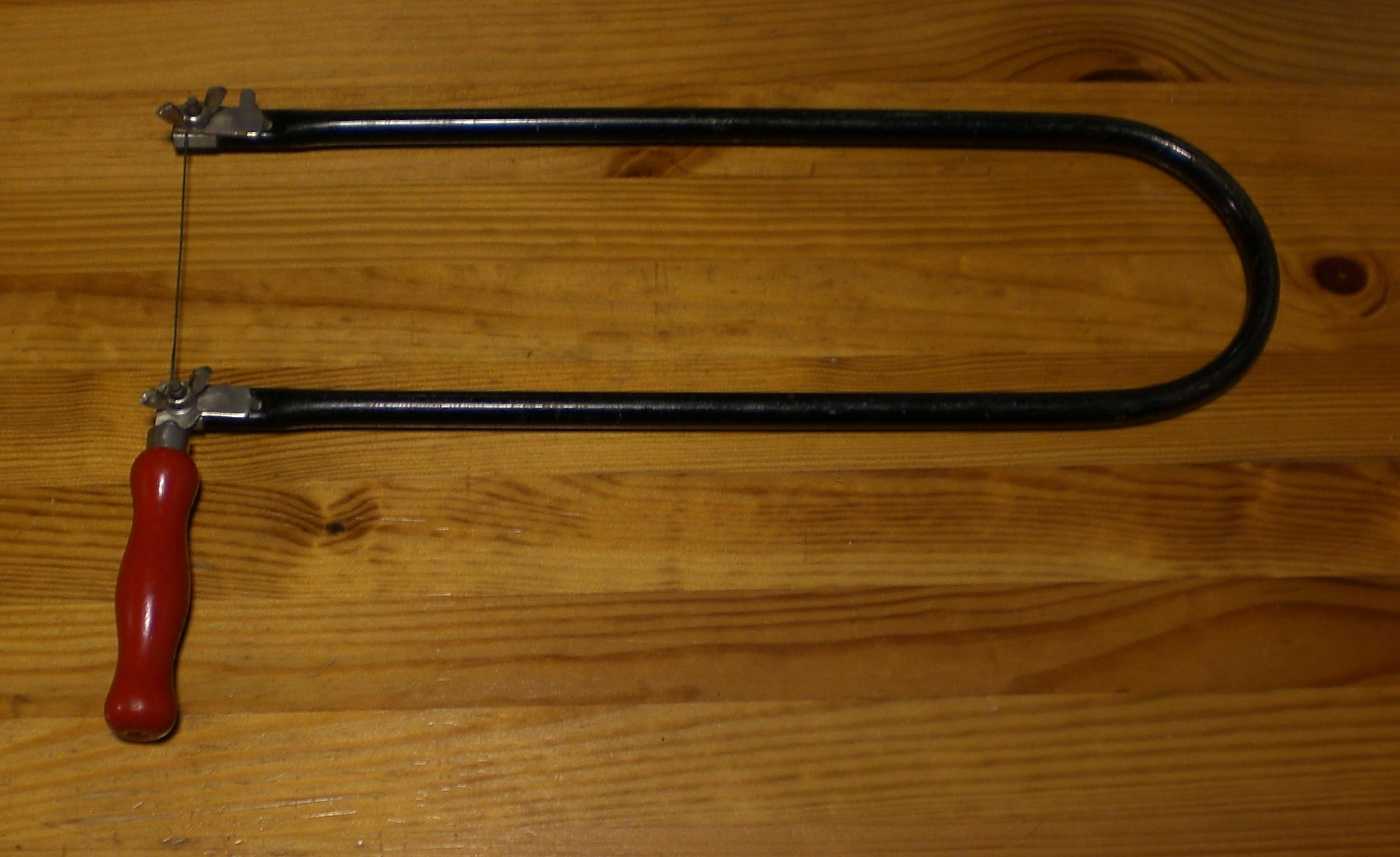 16 inch fretsaw (fret saw) fitted with a 20 t.p.i. blade